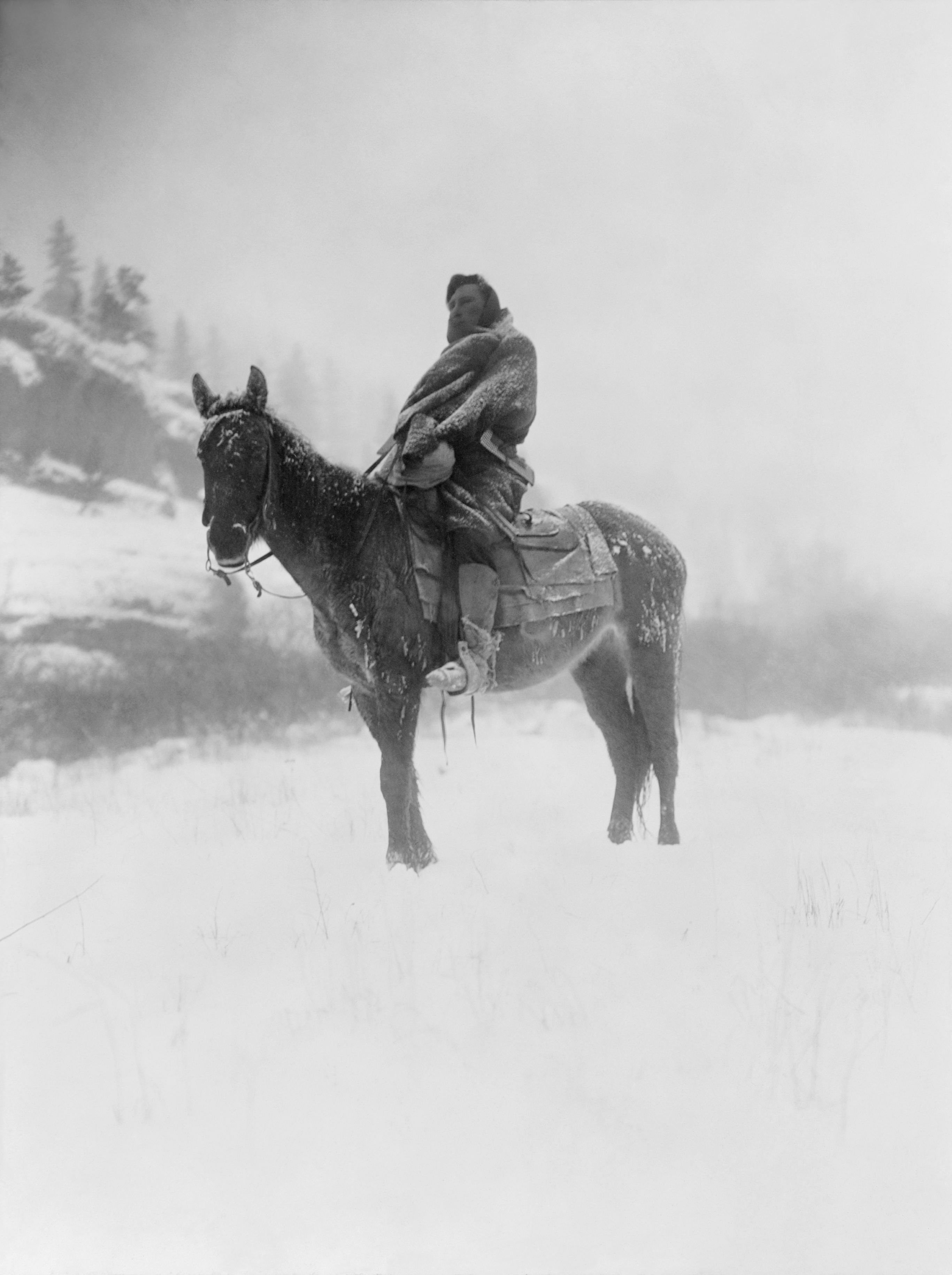 An Apsaroke (Crow tribe) man on horseback on snow-covered ground, probably in the Pryor Mountains, Montana. Photographed by Edward Sheriff Curtis circa 6 July 1908. The original scan was made from a black and white film copy negative.